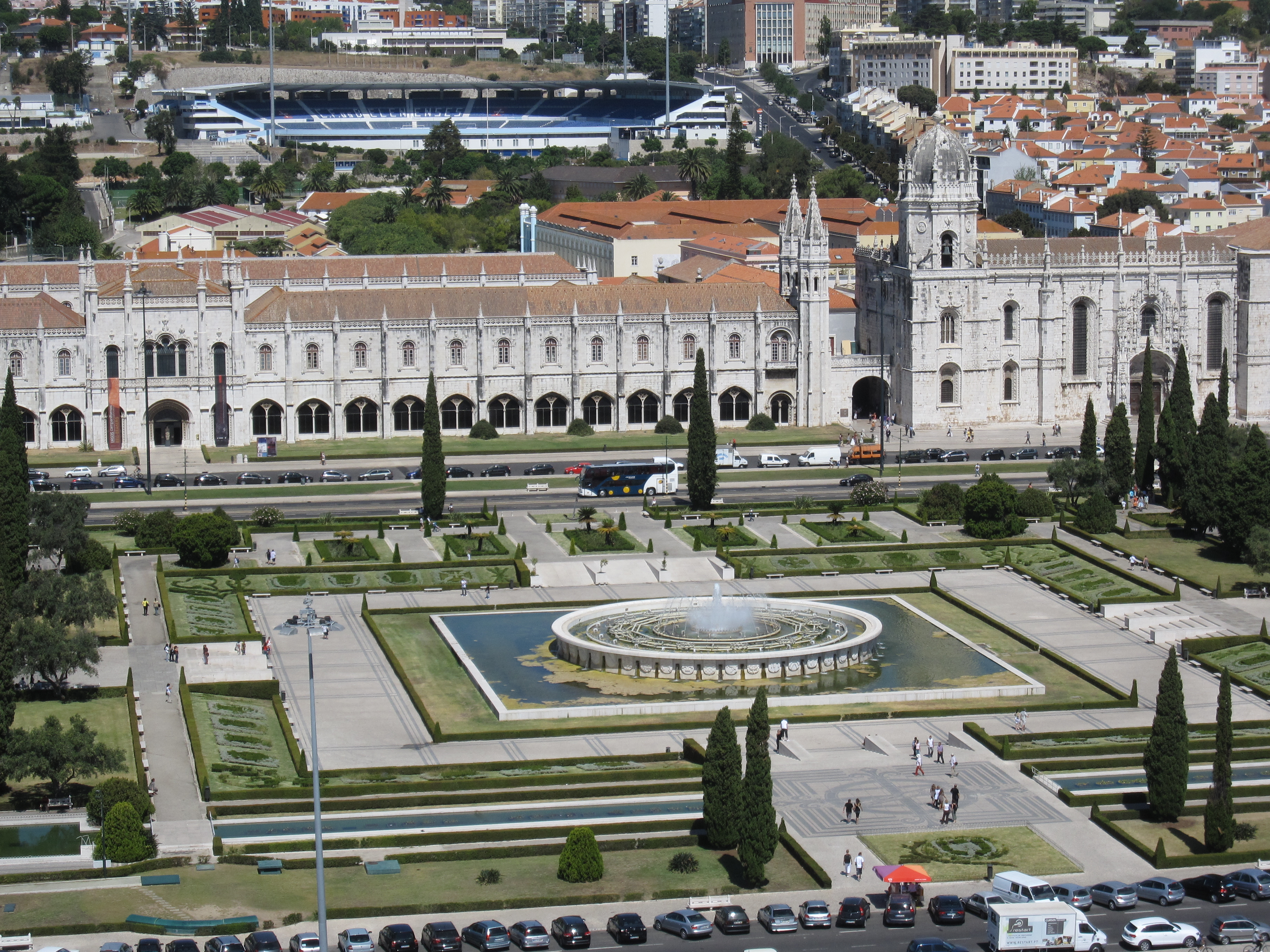 Praça do Império or Empire Square, in front of the Mosteiro dos Jerónimos, in Belém, Lisbon. The square measures about 280 x 280 m, plus adjacent areas, and is the largest square in the Iberian Peninsula and one of the largest in Europe. In the center of the square is a 3300 m² garden with large fountain in the middle. The square commemorates the Portuguese Empire and was built for the Exhibition of the Portuguese World in 1940.